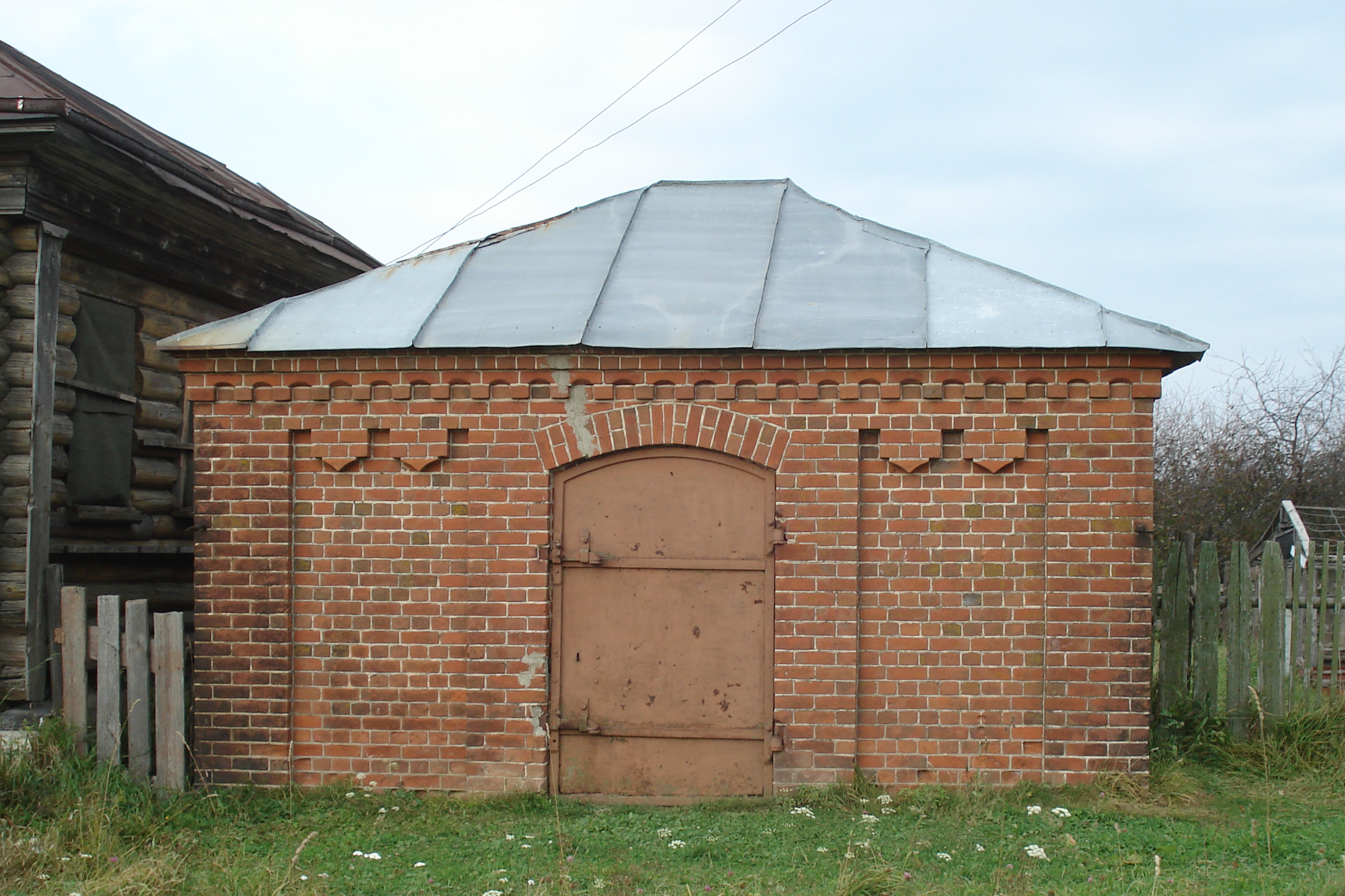 «Palatka» in the village of Pozhoga. Nizhegorodskaya oblast. Russia.